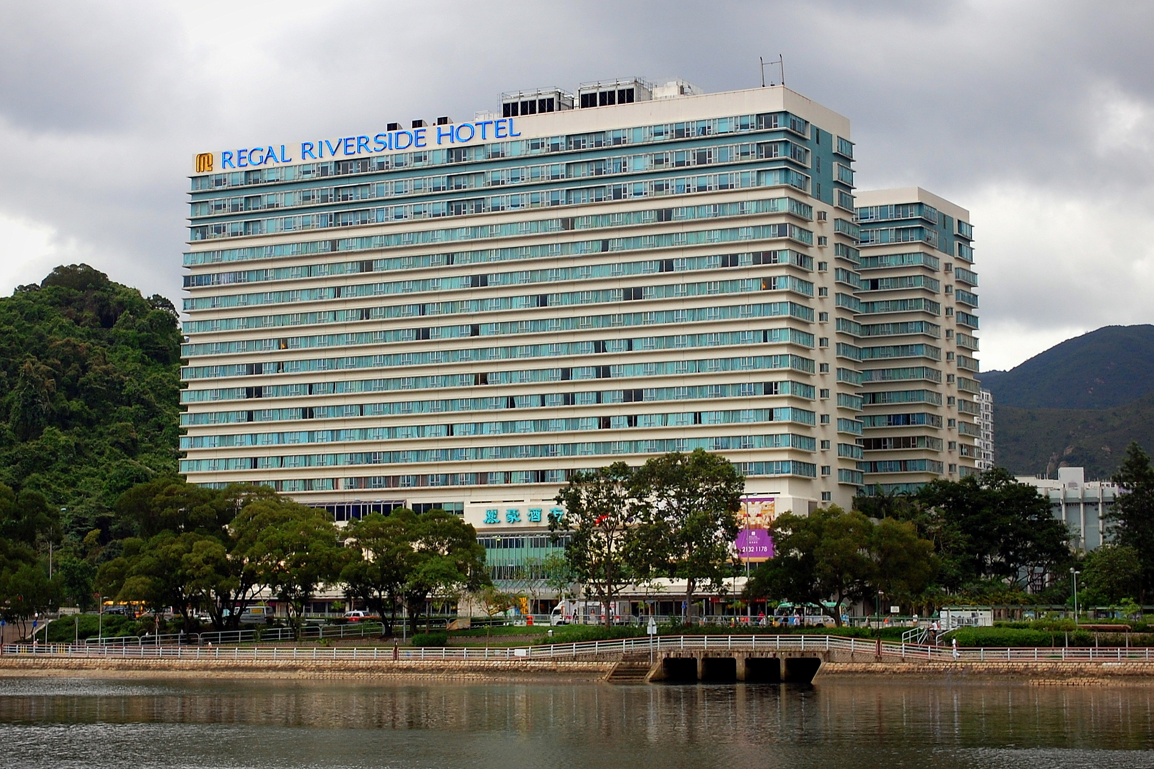 Regal Riverside Hotel, 2014中文（香港）: 麗豪酒店 2014